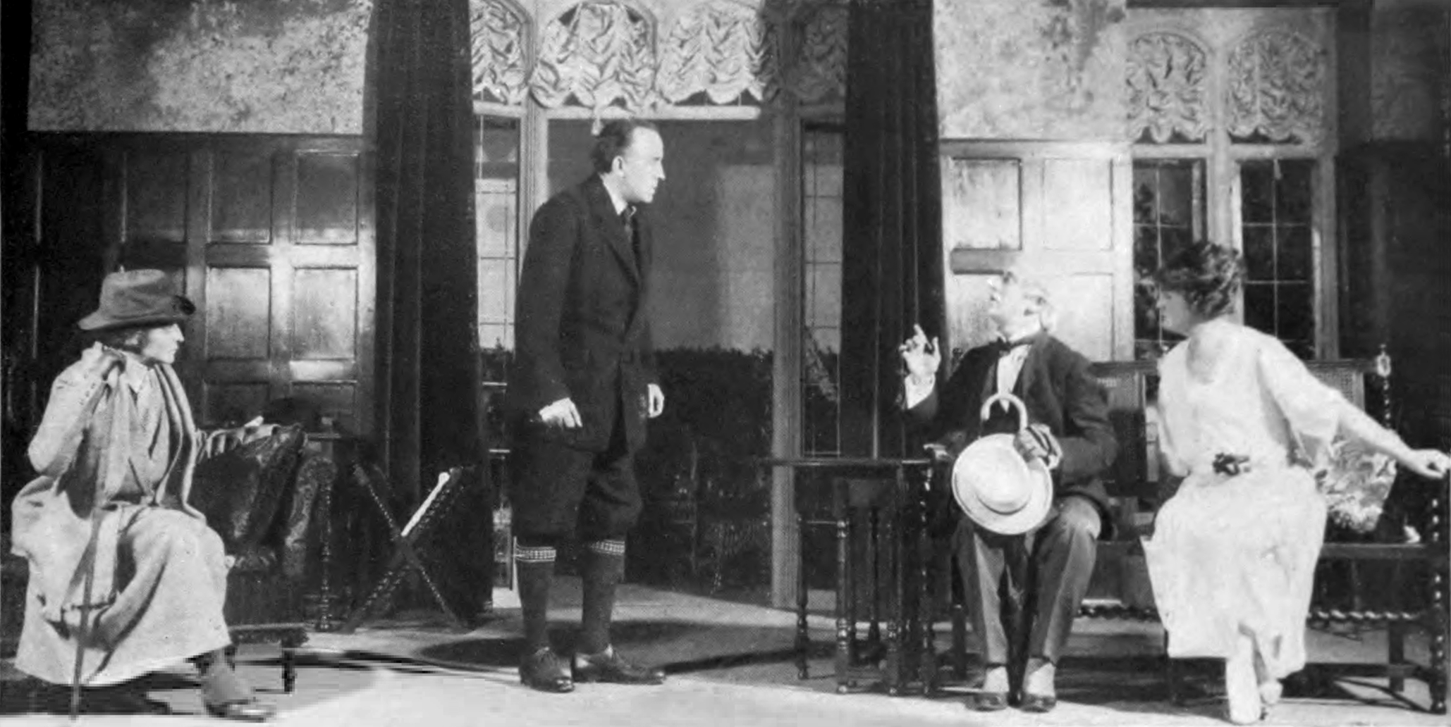 Photograph of a scene from the Theatre Guild production of A. A. Milne's Mr. Pim Passes By (1921) with (left to right) Helen Westley (Lady Marden), Dudley Digges (George Marden, J. P.), Erskine Sanford (Carraway Pim) and Laura Hope Crews (Olivia) Caption reads as follows:Mr. Marden (Dudley Digges) is horrified to learn that his wife's first husband, a shady character, is still living